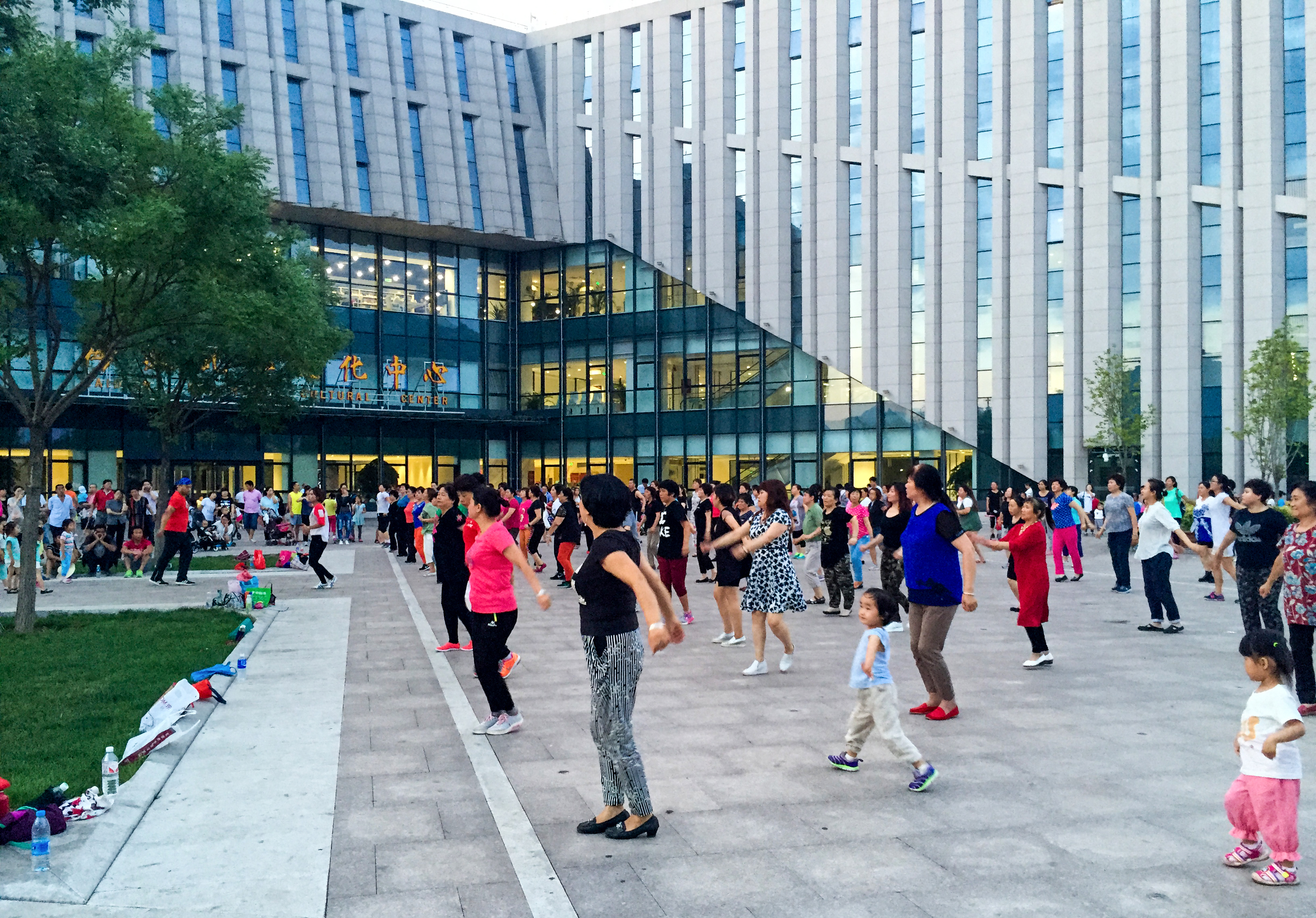 Such mass dancing are common in nearly every city east of Hu Line. Then I even saw a woman in red gown and high heels, probably for dancing as well.